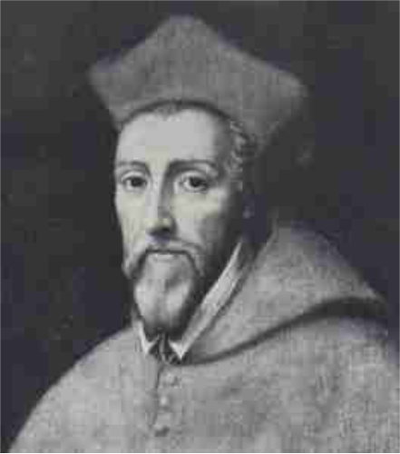 Cardinal William Allen